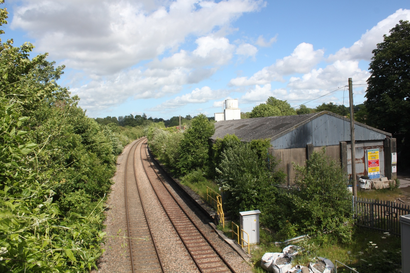 Henbury railway station in the north of Bristol closed in 1965 but the line remains in use for freight trains to Avonmouth Docks.